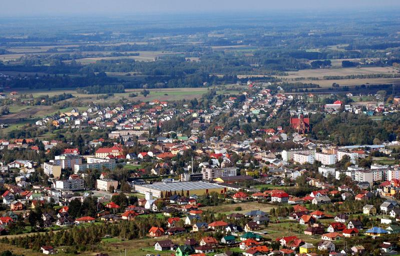 widok nasielska z lotu ptaka